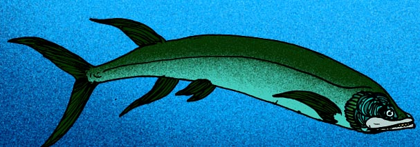 Reconstruction of the 4-meter long ichthyodectid Ichthyodectes ctenodon of the Late Cretaceous Western Interior Seaway.